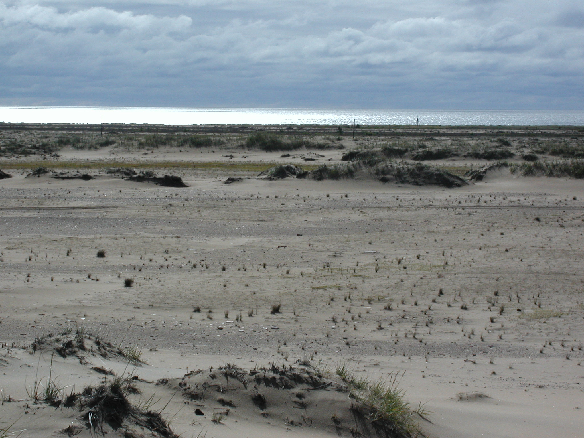 dunes at Varzuga River mouth, White Sea